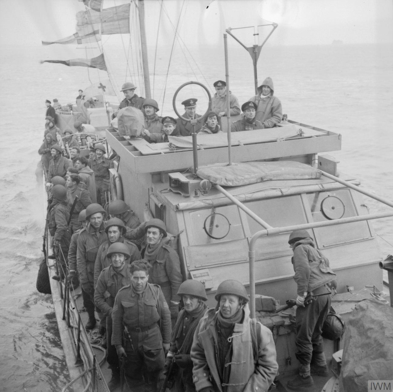 Operation 'biting' - the Bruneval Raid 27/28 February 1942 A Royal Navy MTB brings men of 'C' Company, 2nd Parachute Battalion, into Portsmouth harbour on the morning after the Bruneval raid, 28 February 1942. The CO of the assault force, Major J D Frost, is on the bridge, second from left.